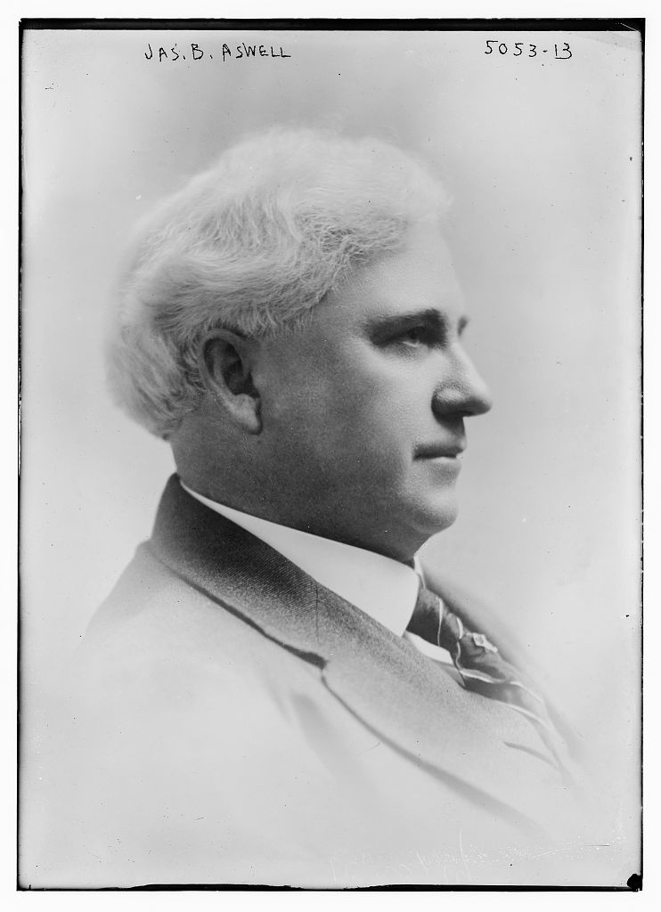 James Benjamin Aswell circa 1915